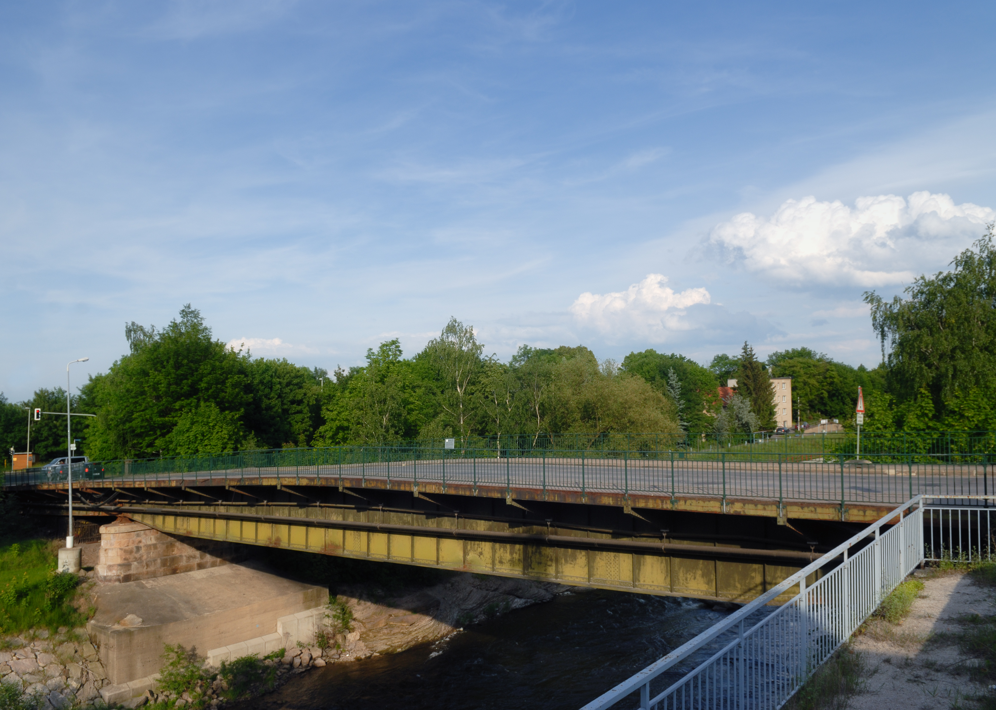 This image shows the Cainsdorfer Brücke ("Cainsdorf bridge") in the district Cainsdorf in Zwickau, Germany.